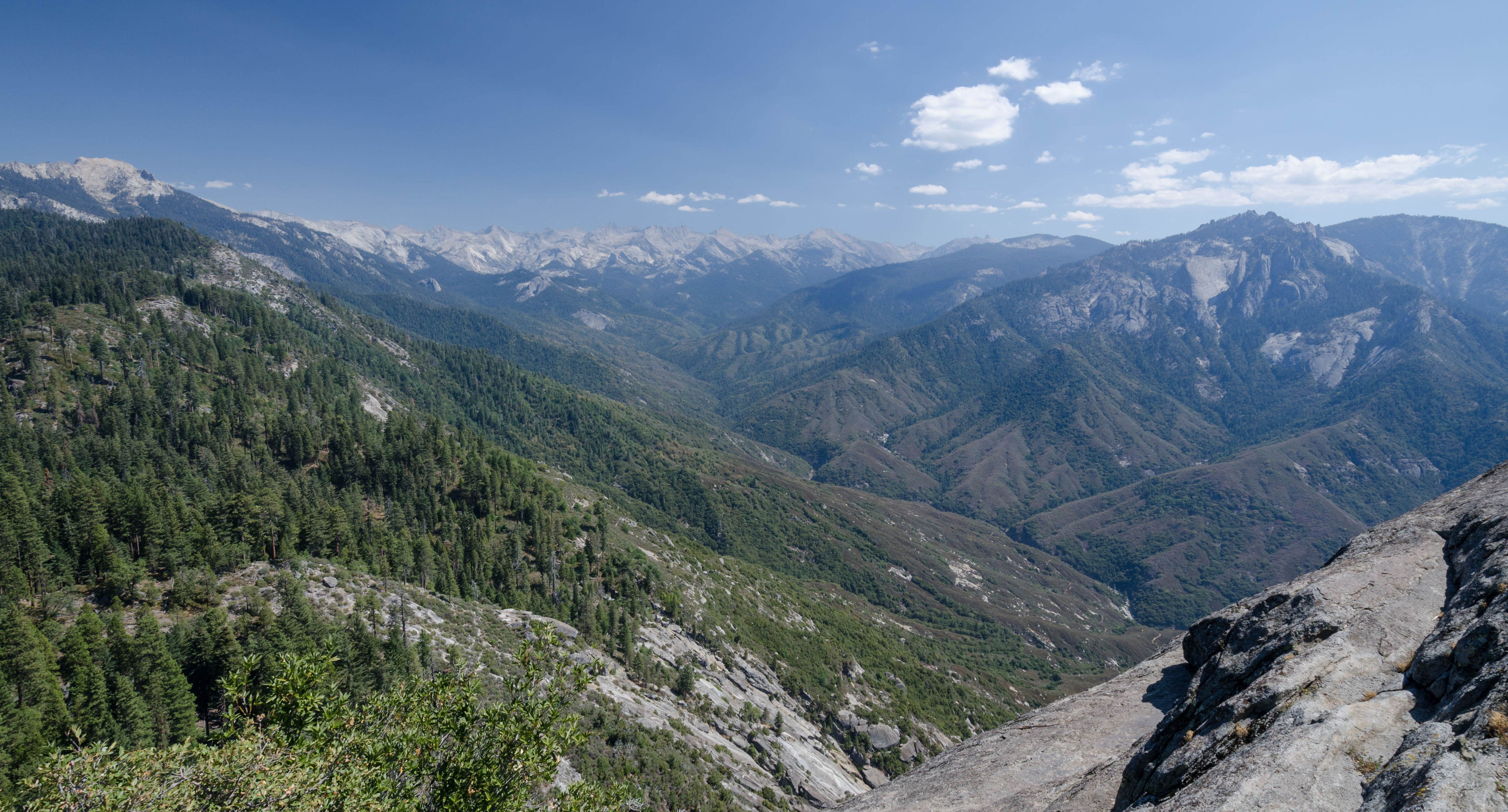 View from Moro Rock over parts of Sequoia National Park